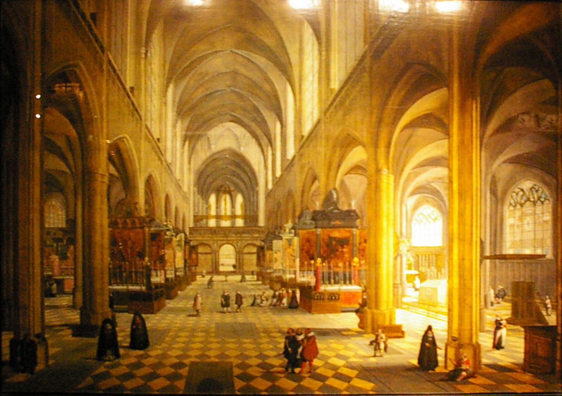 Interior of Antwerp Cathedral